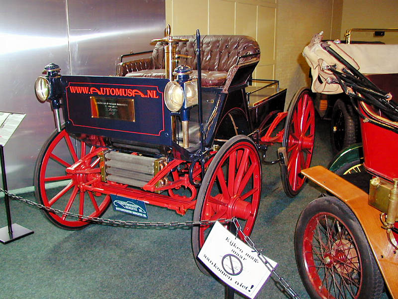 car with rear mounted engine similar to German Benz designs, made in Belgium by Manufacture de Voitures Automobiles N. Vincke; front-side view